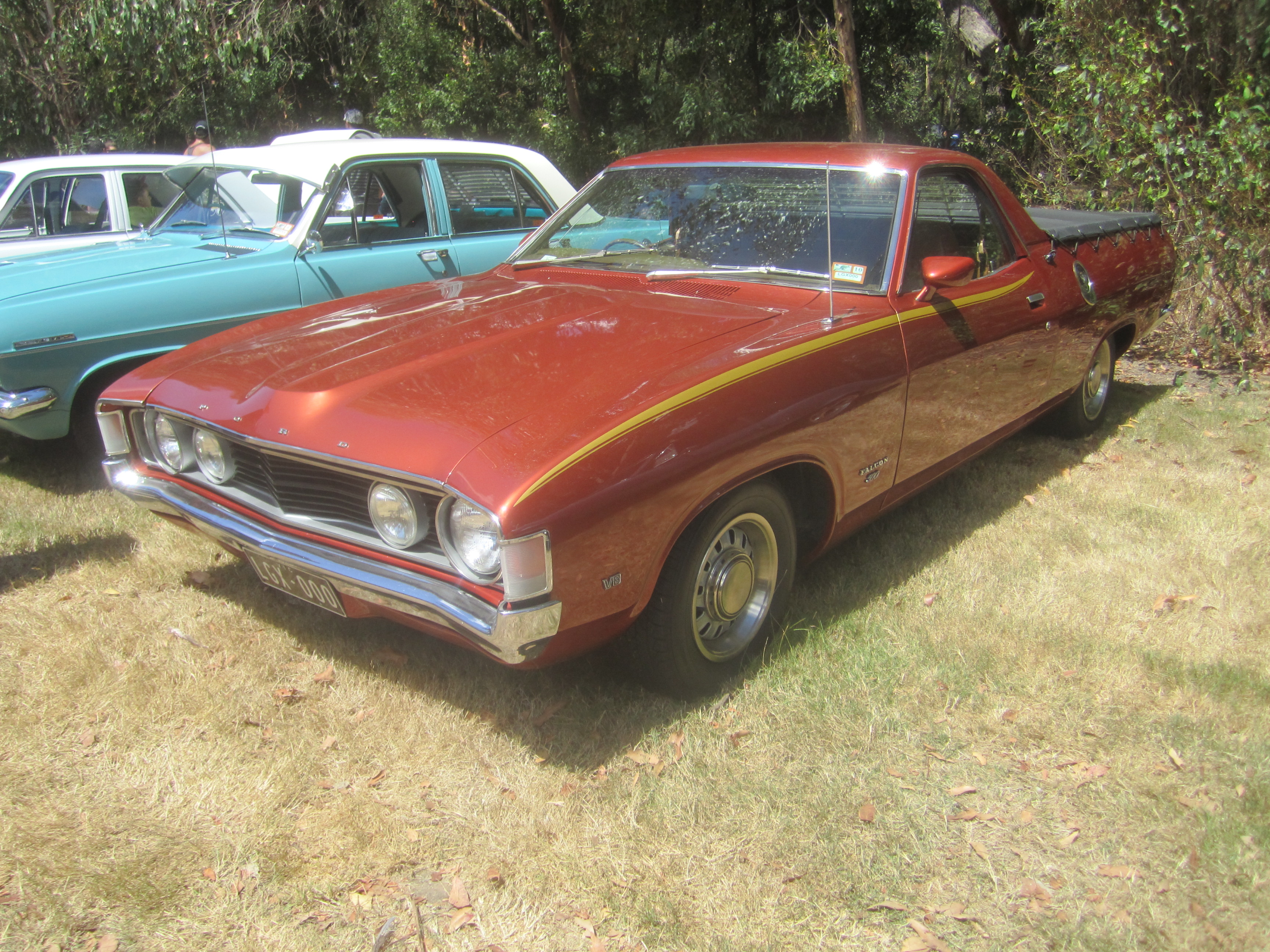 Ford XA Falcon 500 Utility with Grand Sport Rally Pack and additional driving lights. First Fully Australian Designed Falcon, the XA got an entirely new body, more roomy than the XY and the Hardtop was reintroduced. Built from March 72-Sept 73 Engines; 250 6 or 302 and 351 V8s Available in base, 500 or GS, Panel Van also